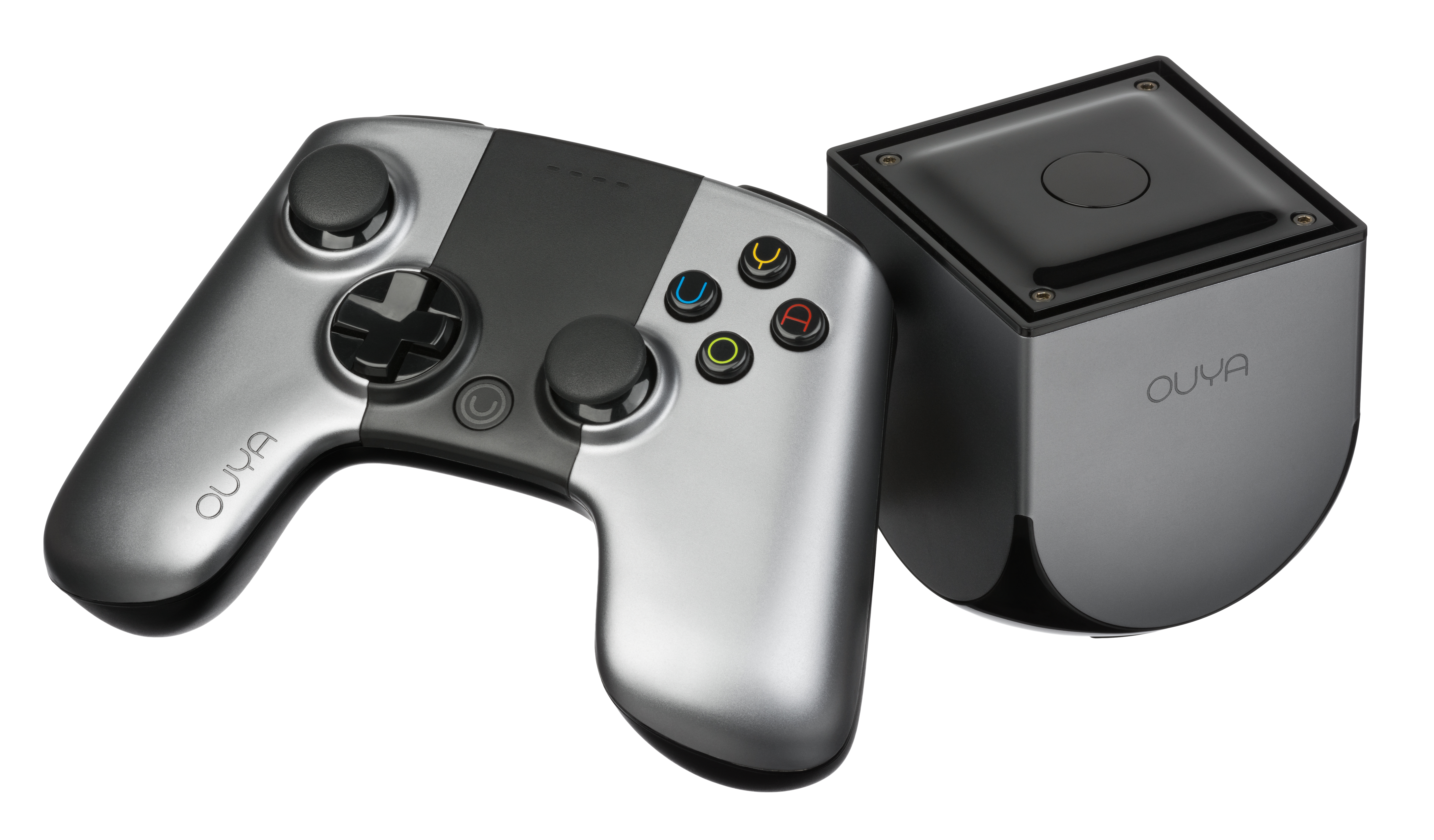 The OUYA game console and controller. The OUYA is an Android-based gaming console that was brought to the market through the success of a Kickstarter in 2012. The Kickstarter was one of the most successful in the site's history, raising $8.5 million of crowdfunding capital. The OUYA became available in stores on June 25, 2013 with a retail price of $99. Built on the idea of low cost and low entry development, the OUYA seeks to bring the popularity of cell phone gaming to a TV. Each system also functions as a dev kit, allowing any user to potentially make games for the system.